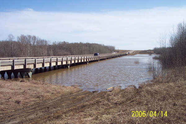 Photo taken by my father Brock Irvine. If reproduced please give credit to my father.